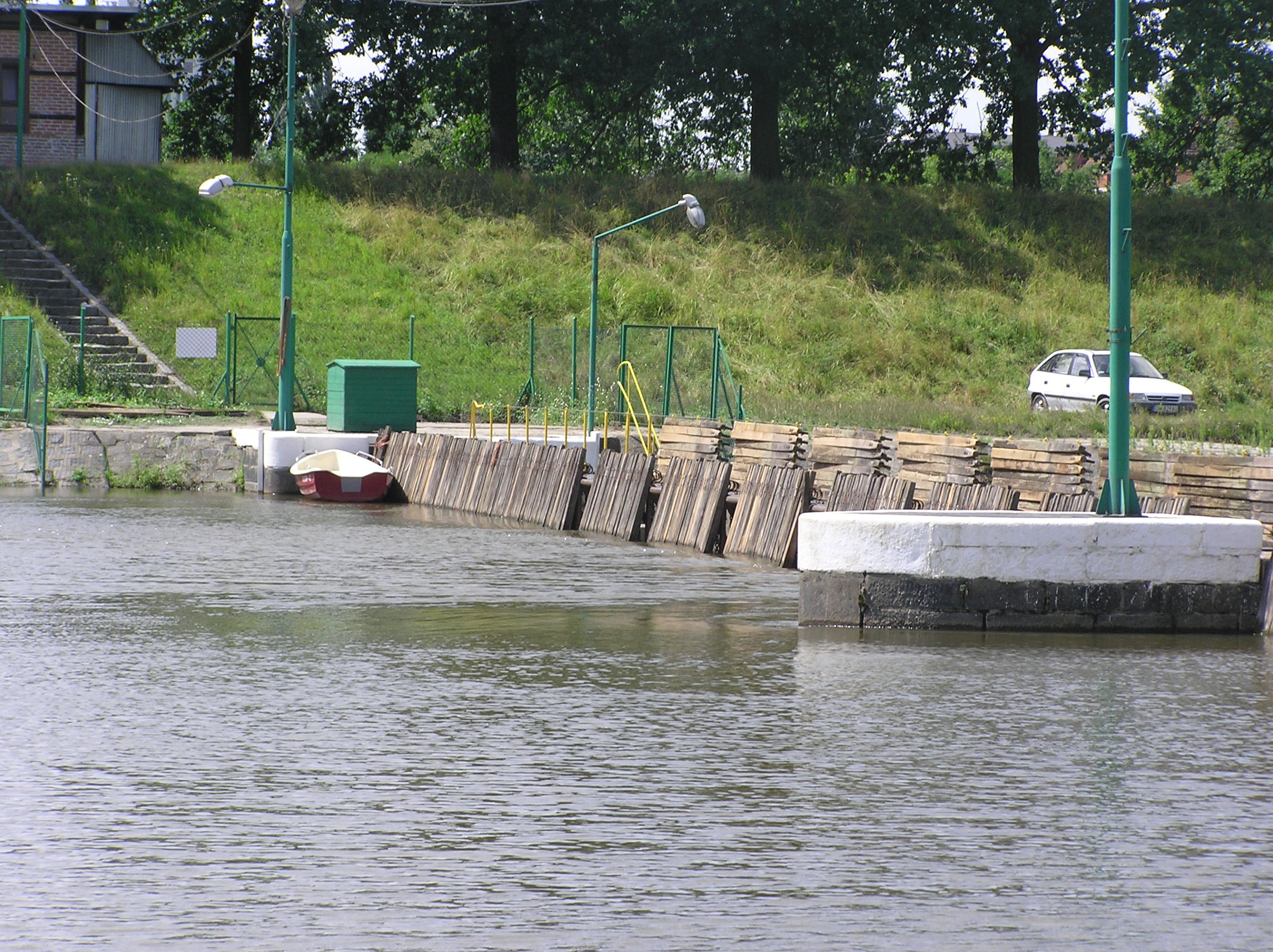 Wrocław, Psie Pole Weir